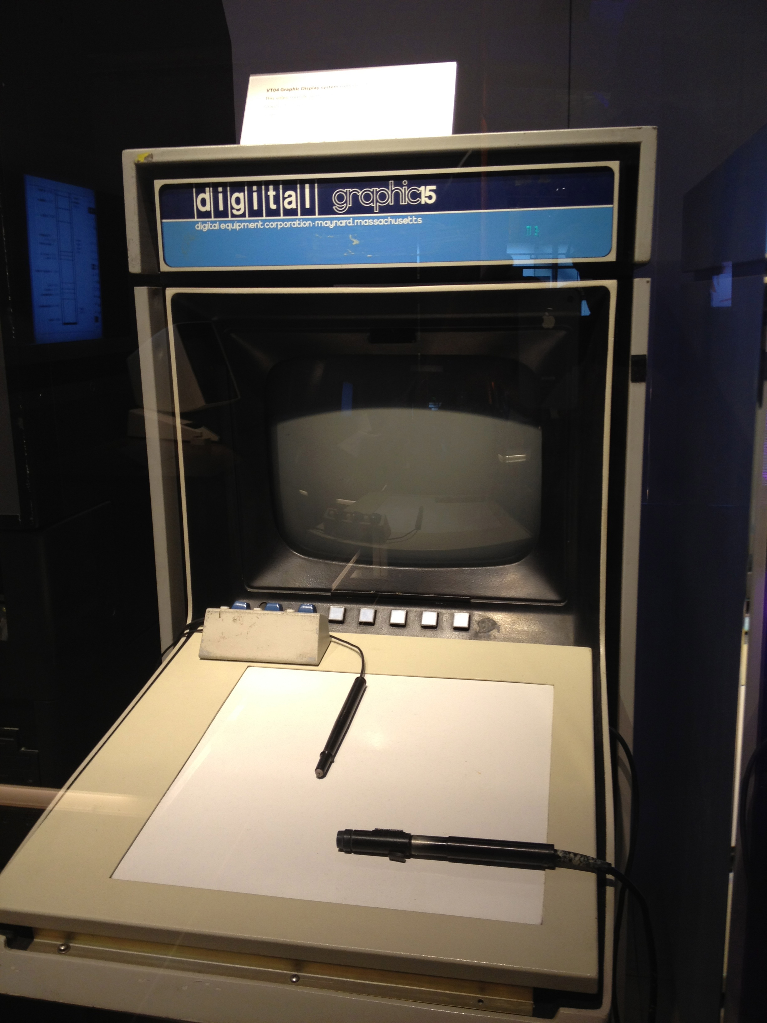 Vector graphics terminal for PDP-15 computer, with light pen and digitizing tablet, at Computer History Museum.